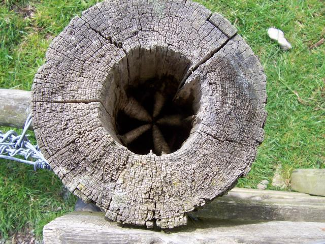 Five wood knots in a fence post